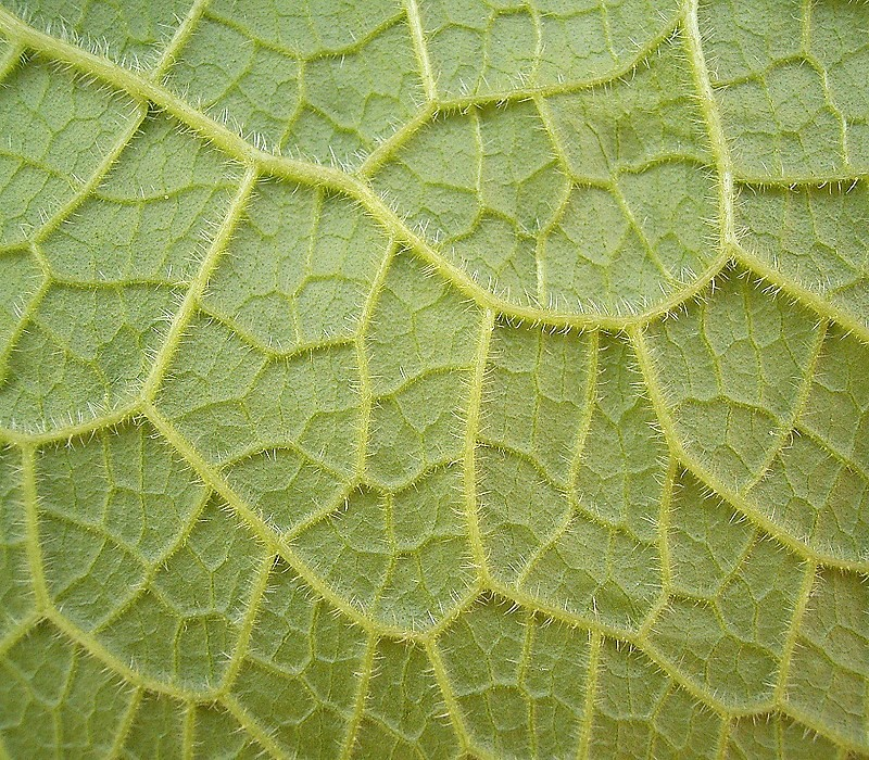 Symphytum officinale